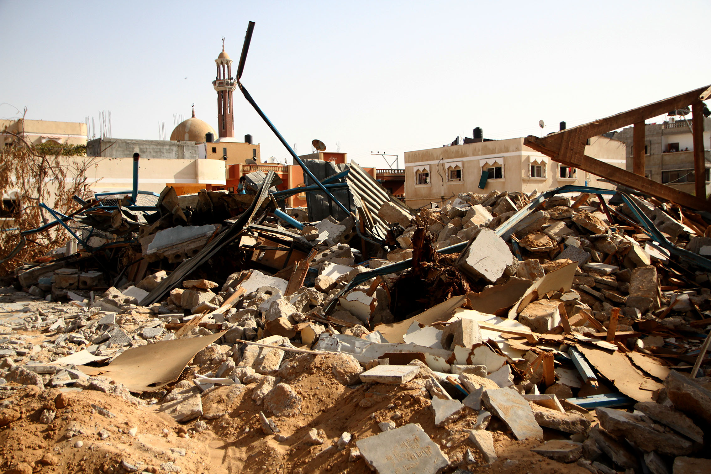 Gaza (Palestina), 25 de septiembre (Andes).- Franja de Gaza. Foto: Luis Astudillo C. / Andes